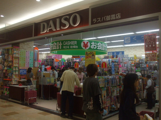 laspa mitake shop at The Daiso